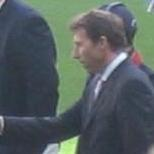 Michael Atherton. Taken by SteveRwanda